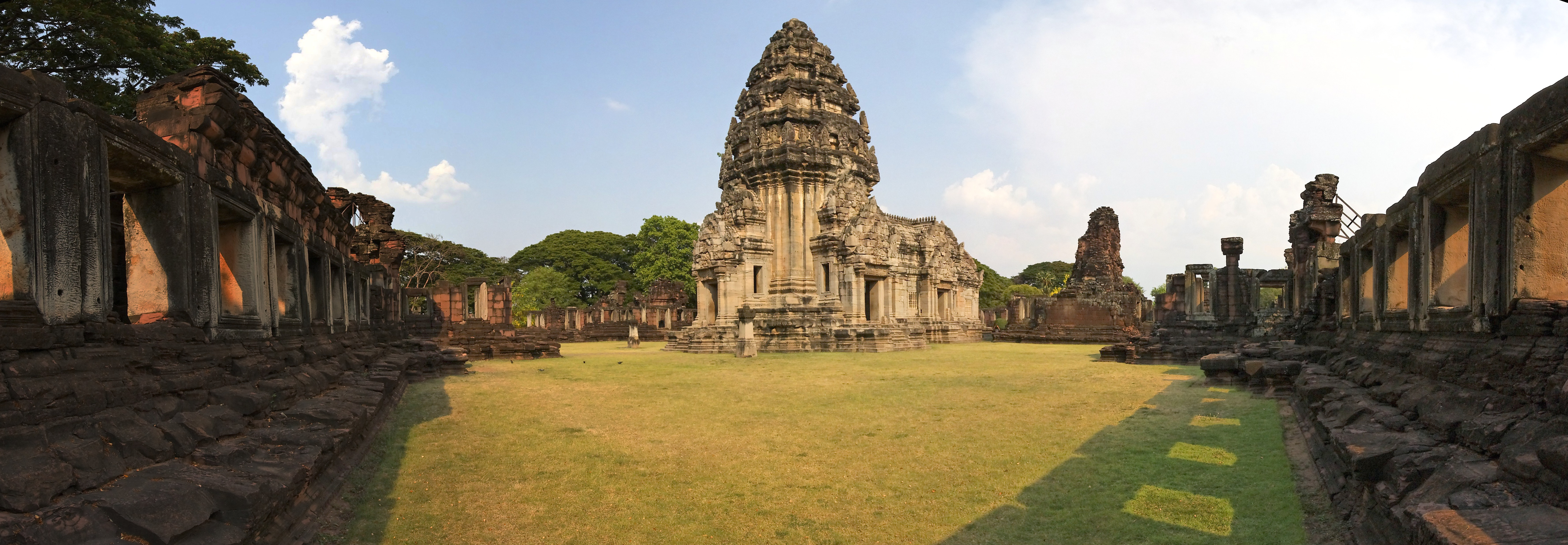 Phimai historical park, Nakhon Ratchasima, Thailand: the Central Sanctuary in the Inner Enclosure as seen from the north-west.